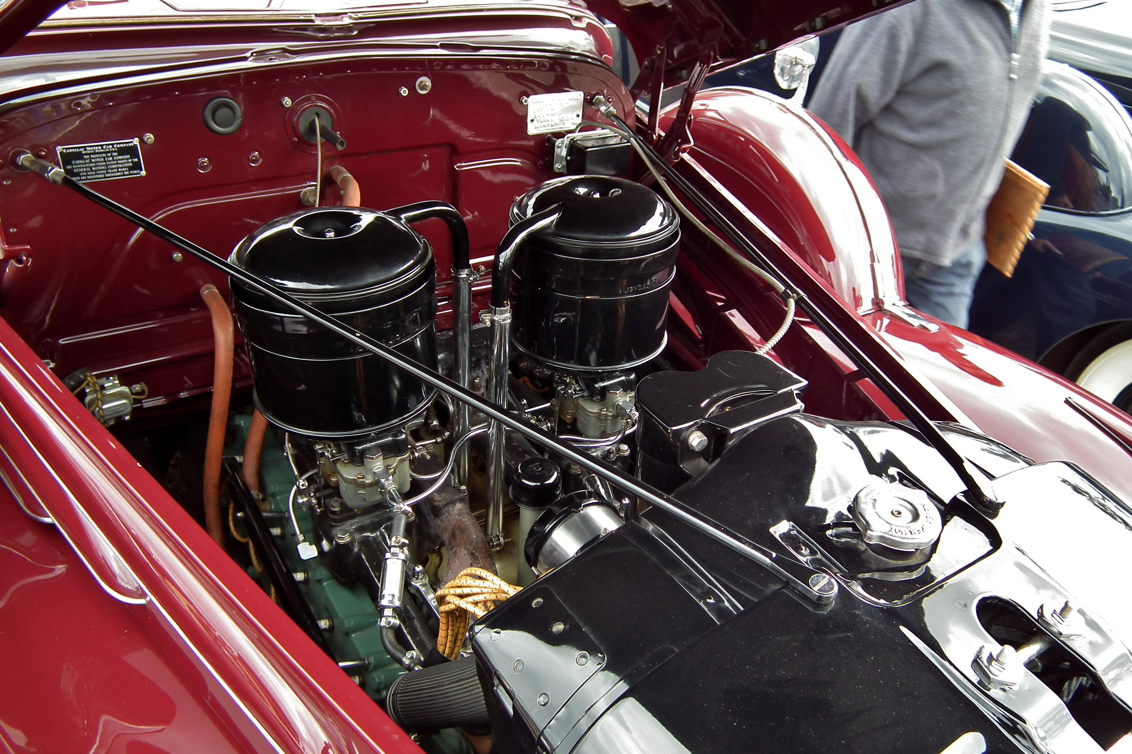 1938 Cadillac convertible engine. Taken at Shannon's Eastern Creek Classic 2011, held at Eastern Creek Raceway Sydney.